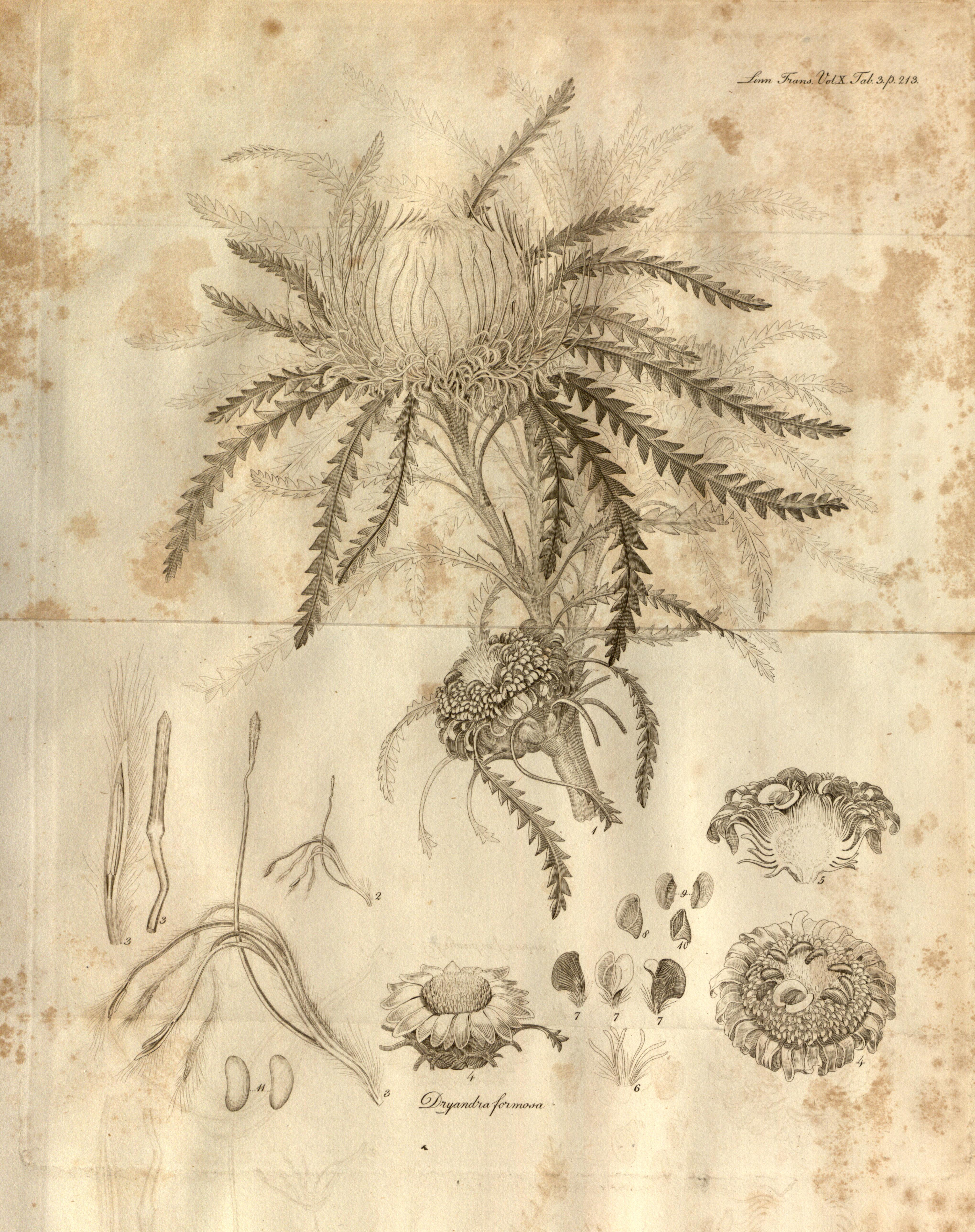 This is Plate 3 from Volume 10 of Transactions of the Linnean Society of London, published in 1811. The plant depicted is Dryandra formosa (now Banksia formosa).